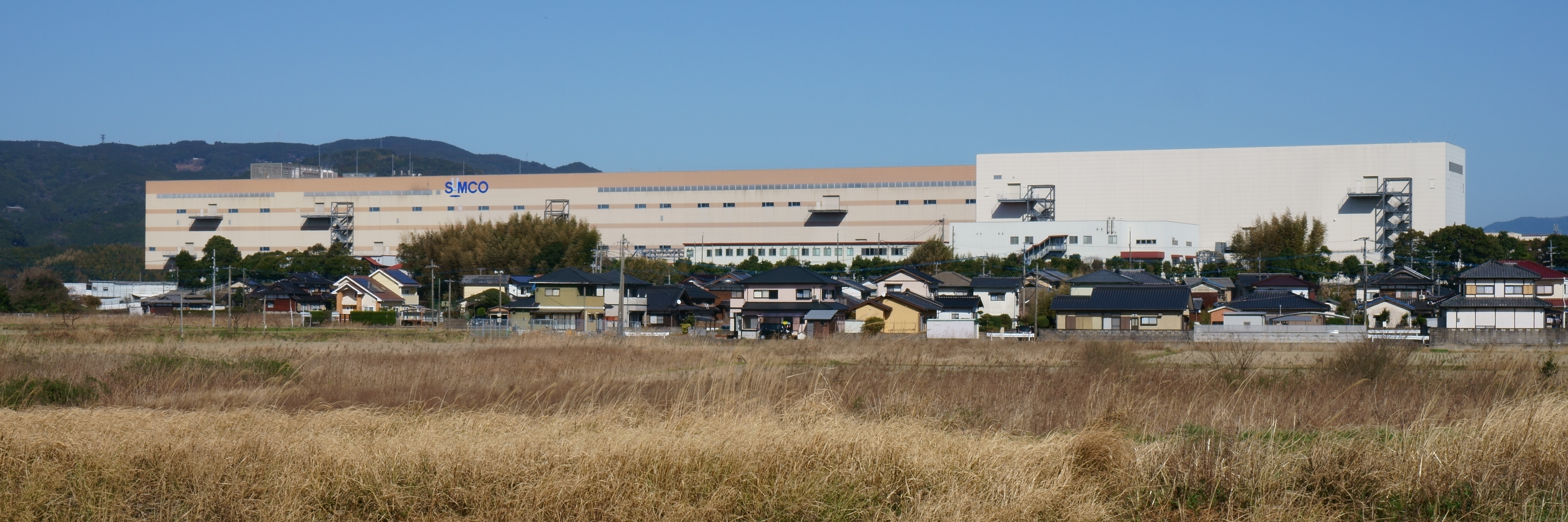 Imari Factory of SUMCO Kyushu Facility in Nagahama, Higashiyamashiro-chō, Imari city, Saga prefecture.